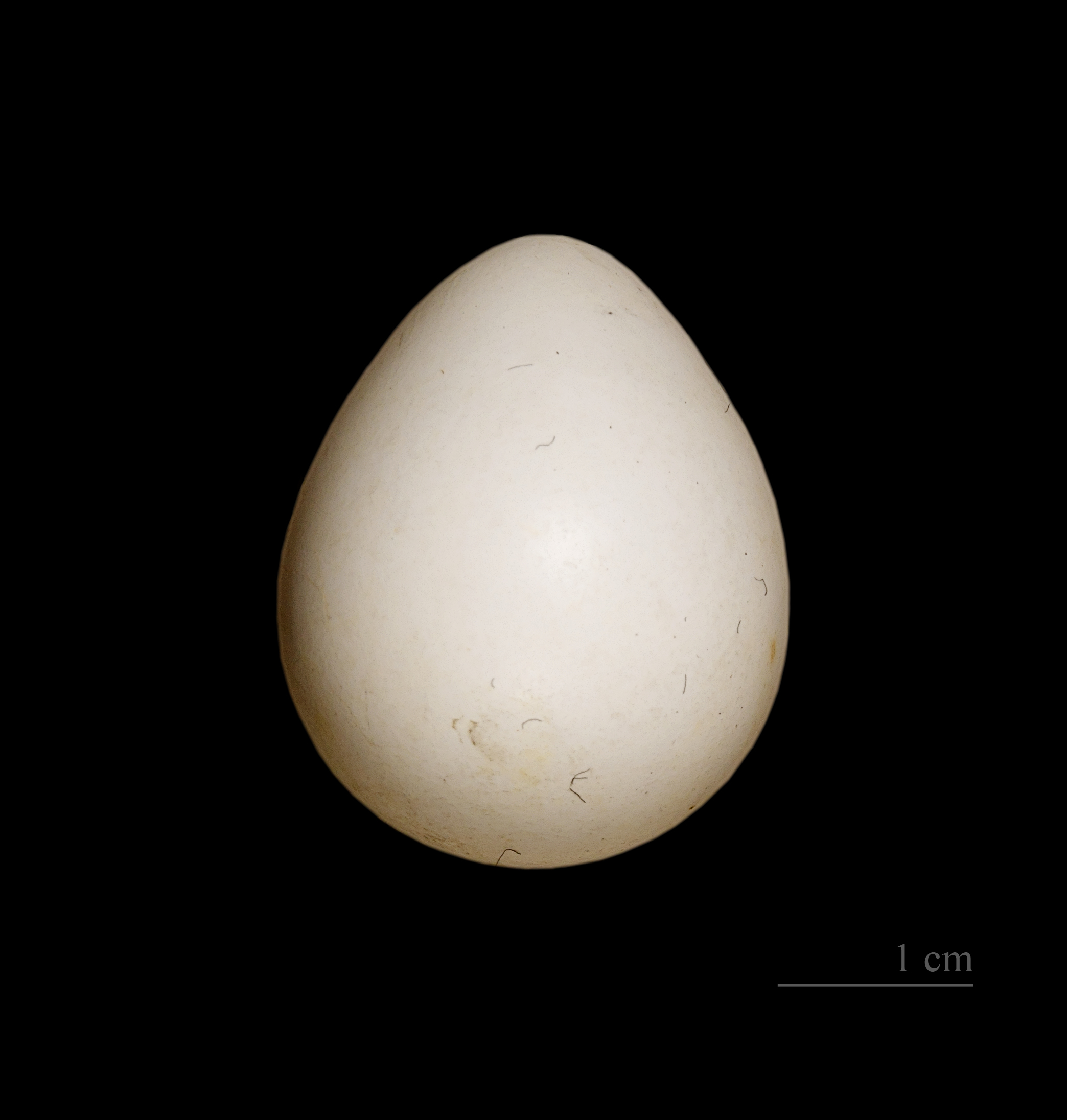 Egg of Northern Bobwhite. Collection of Jacques Perrin de Brichambaut. Locality: United States.